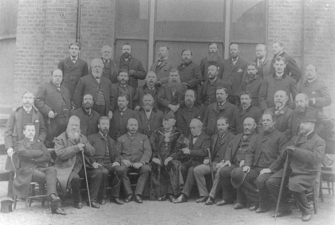 The first West Ham Borough Council, 1886-7. Top row: Councillors W Crow, T Knight, T Anderson, A Govier, J H Pavitt, W Lewis, C Mansfield, H Wagstaff, J Cook Second row: Councillors H Young, J Maw(?) E Fulcher, R Fielder, E Jex, S Vinicombe, E E Barnett, J H Bethell, F Hammersley Third row: Councillors G H Courtney(?) W Hands, G W Kidd, R Wortlet, H Callaghan, R White, WH Medcalf, M Adamson, F Smith Seated: Aldermen H Pillips, J Scully, W Deason(?) G Hay, J Meeson (Mayor) G Rivett, H Worland, C Stoner, H Barry(?) R L Curtis